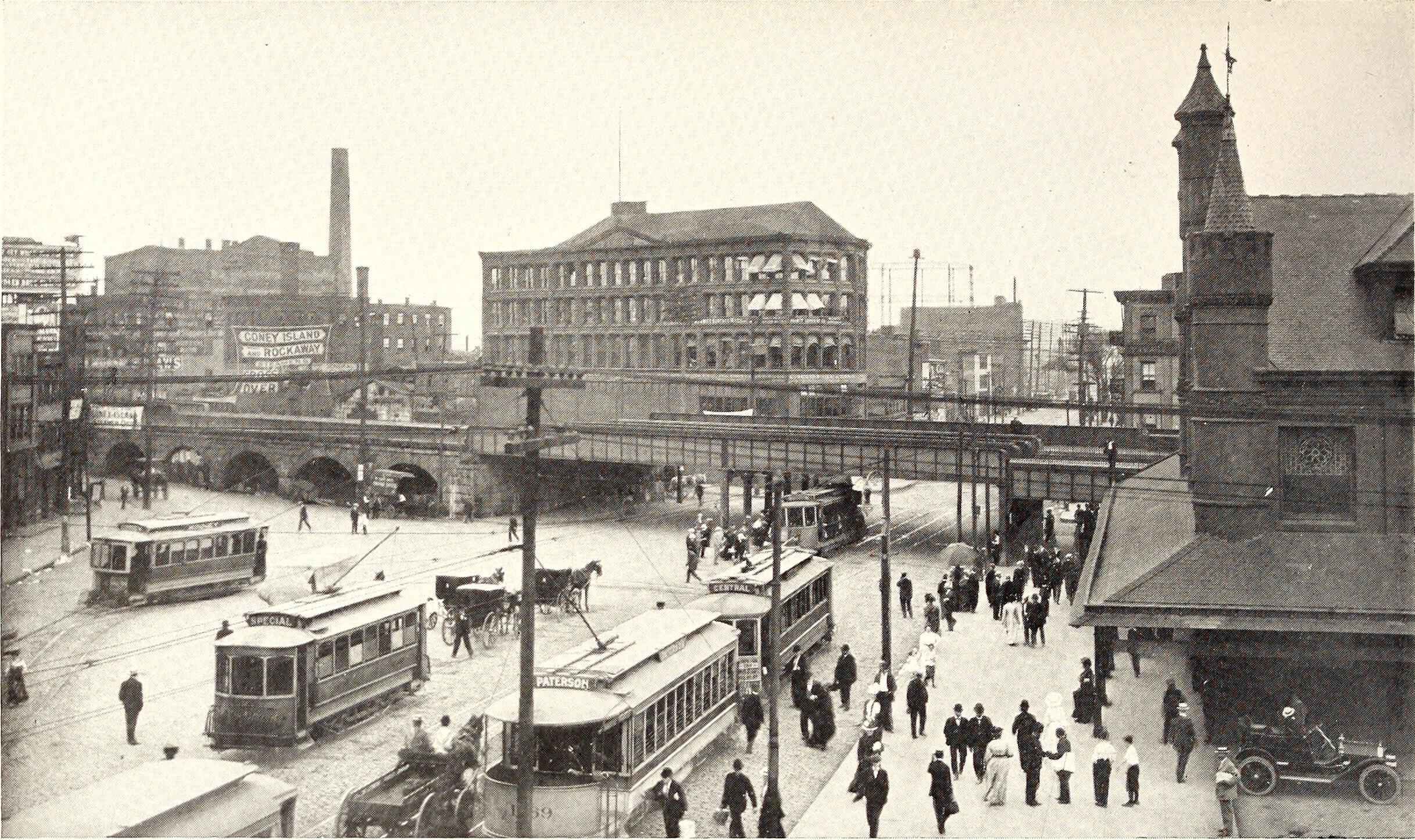 Title: Electric railway journal Year: 1908 (1900s) Authors: Subjects: Electric railroads Publisher: (New York) McGraw Hill Pub. Co Text Appearing Before Image: View at Intersection of Broad and Market Streets, Newark Plate IV Text Appearing After Image: Loop at Weehawken Ferry Station of the West Shore Railroad, with Skyline of New York City from Forty-second Street to Seventy-second Street Plate V